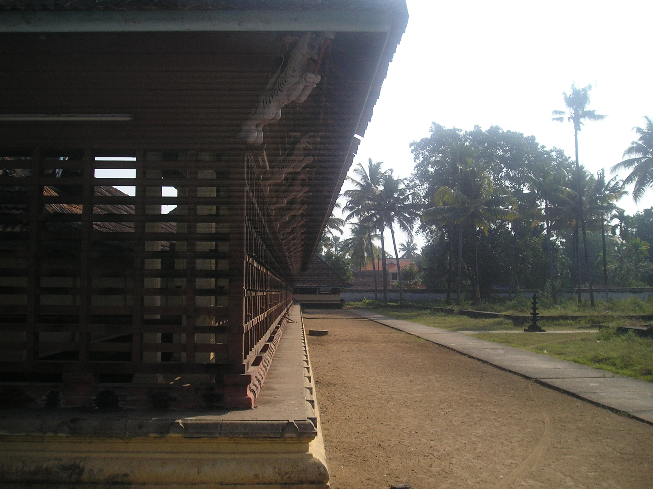 Divyadesam